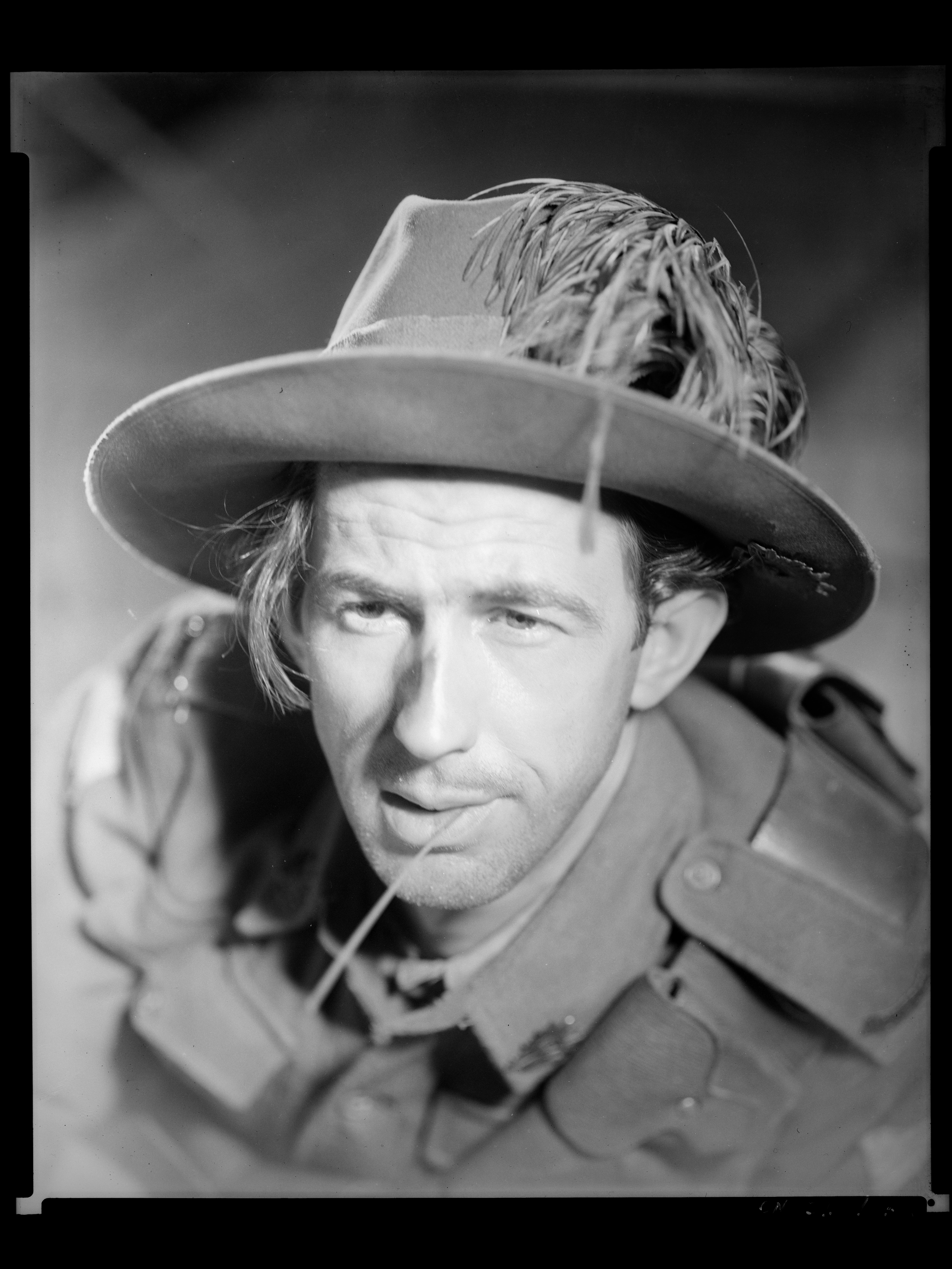 Portrait of Chips Rafferty on the set of 40,000 Horsemen,1940, produced as film still, PXA 1139